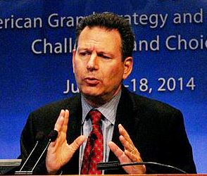 Robert D. Kaplan speaking at the U.S. Naval War College in 2014